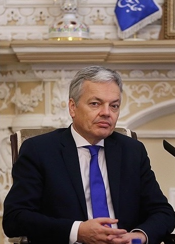 Belgian Foreign Minister visit Iranian Parliament in Baharestan, Tehran